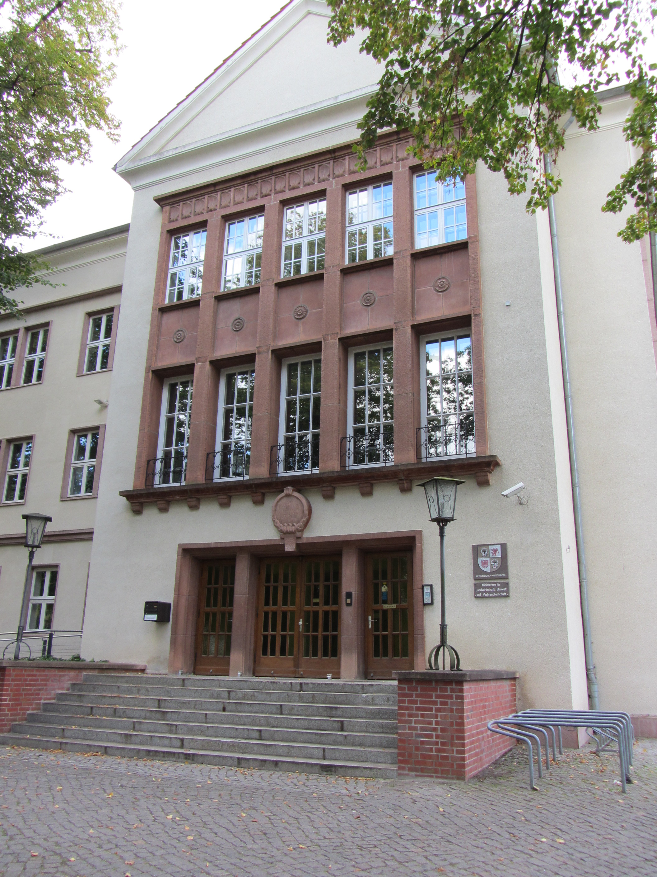 Paulshöher Weg 1, Ministerium für Landwirtschaft, Umwelt und Verbraucherschutz in Schwerin, Mecklenburg-Vorpommern, Germany